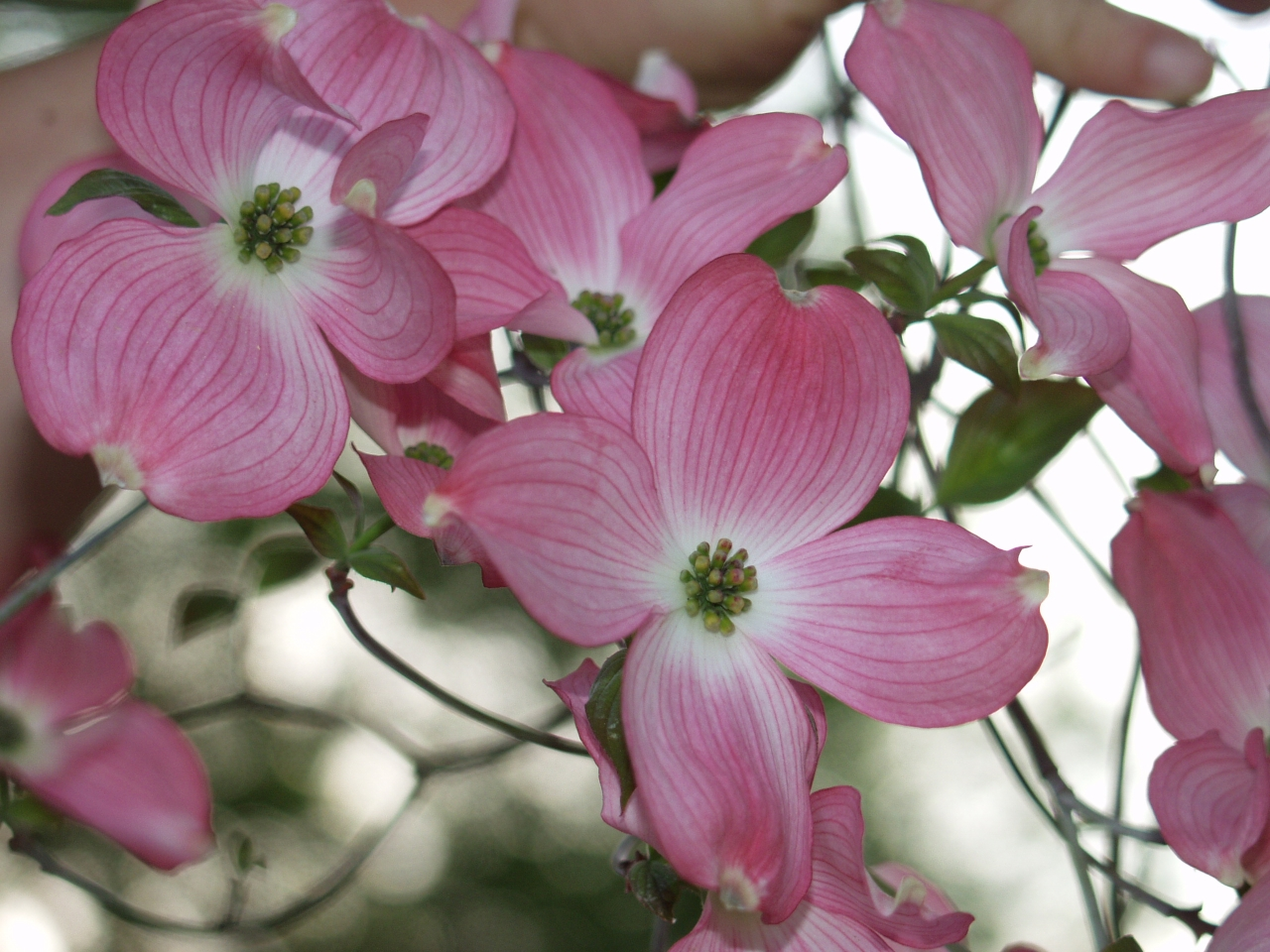 Flowes of Cornus florida rubra